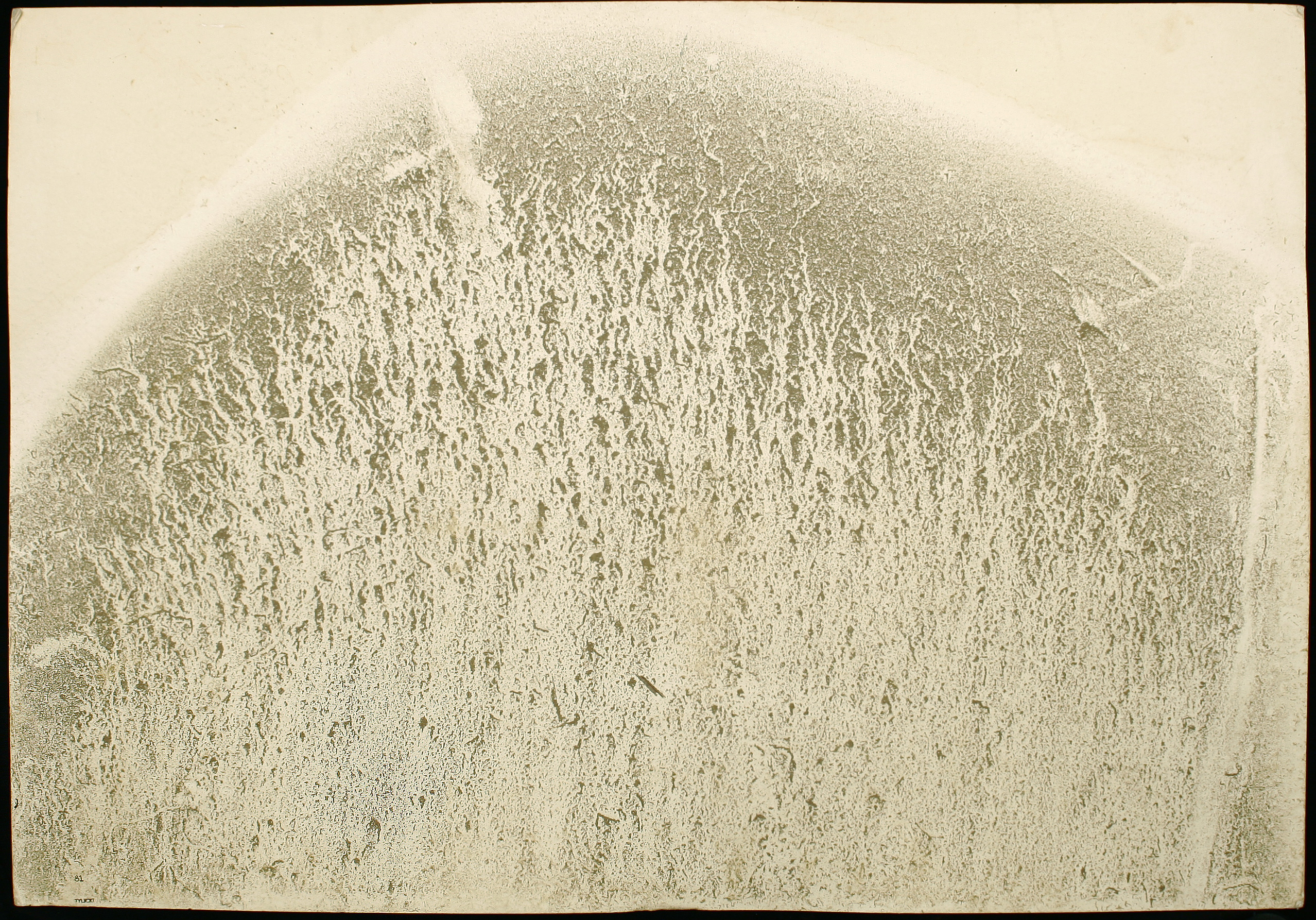 Natural Art Nr. 81. Created by Nature. 3 days on the bank of Hoje river. S.W. of Lund. Sweden 727 x 507 mm. On museum board.